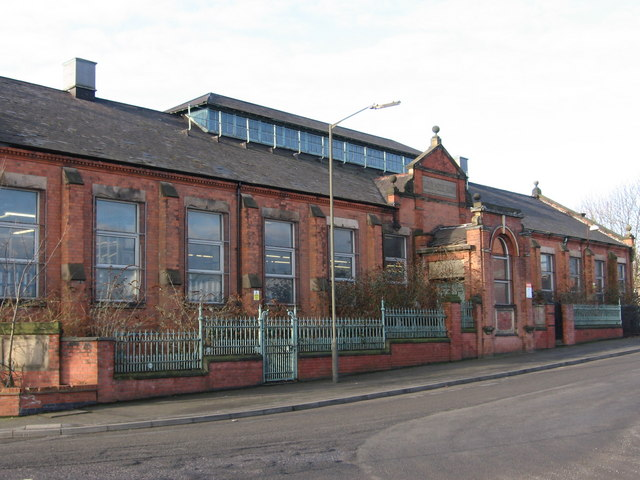 Derby - Ley's Mess Room, Osmaston started by Sir Francis Ley. Apparently, this was the mess room for Ley's Malleable Castings in Colombo Street, Derby.